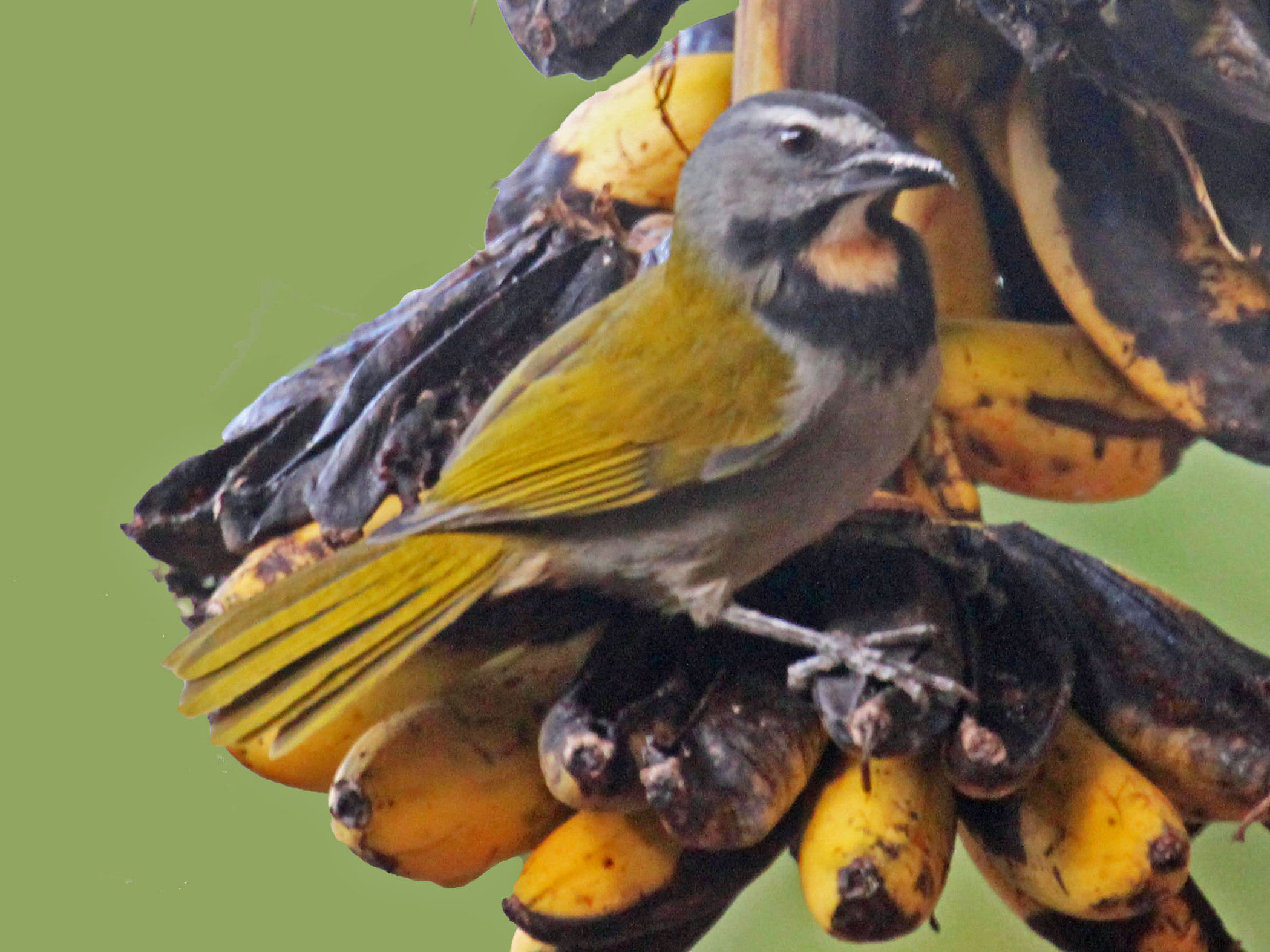 Black-headed Saltator (Saltator atriceps) - Boquette, Panama